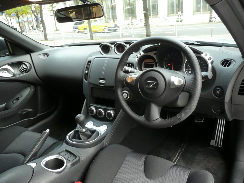 Nissan Fairlady Z interior.